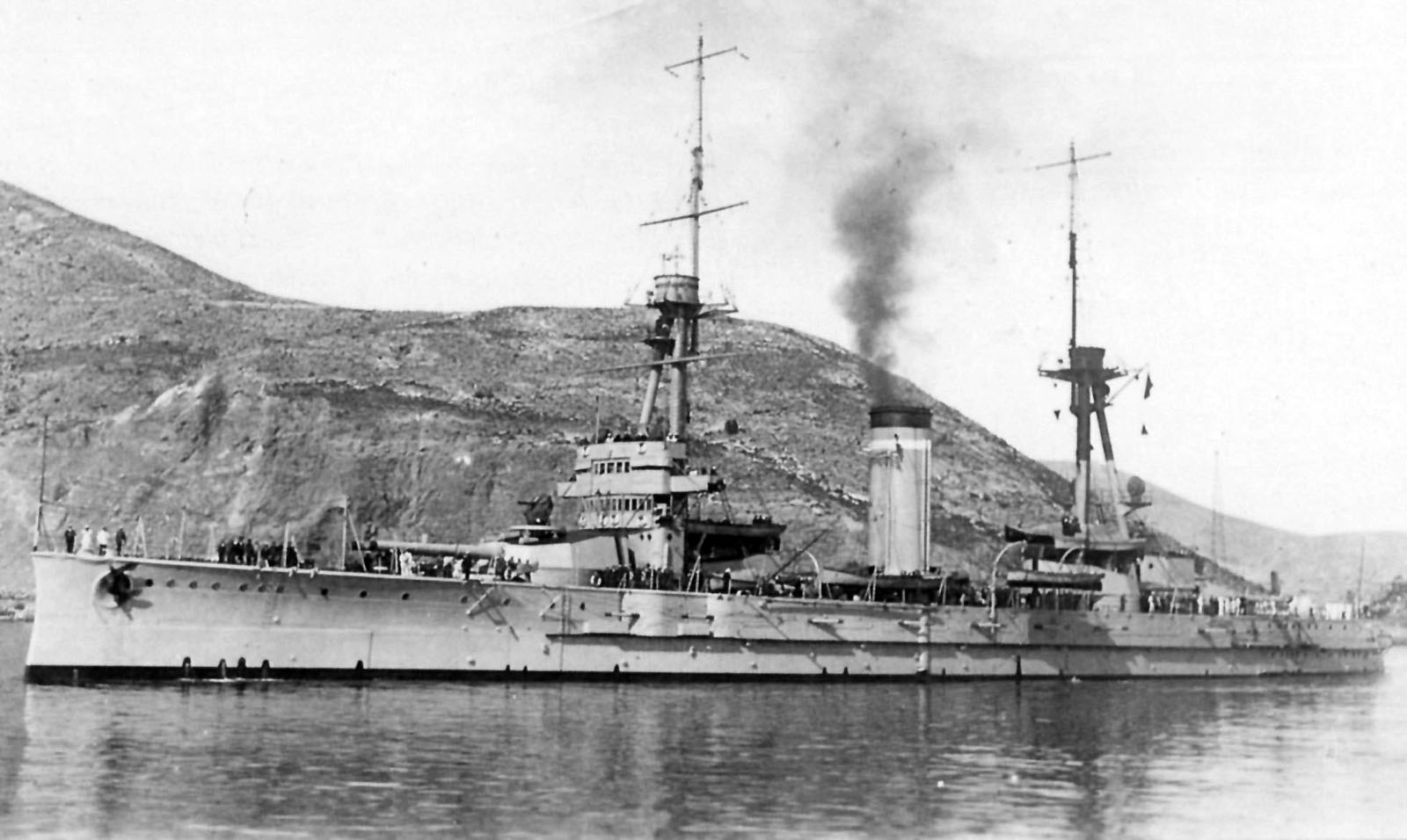 The battleship Alfonso XIII (renamed España en 1931) at beginning of the years 20